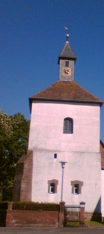 church in Lüthorst Germany